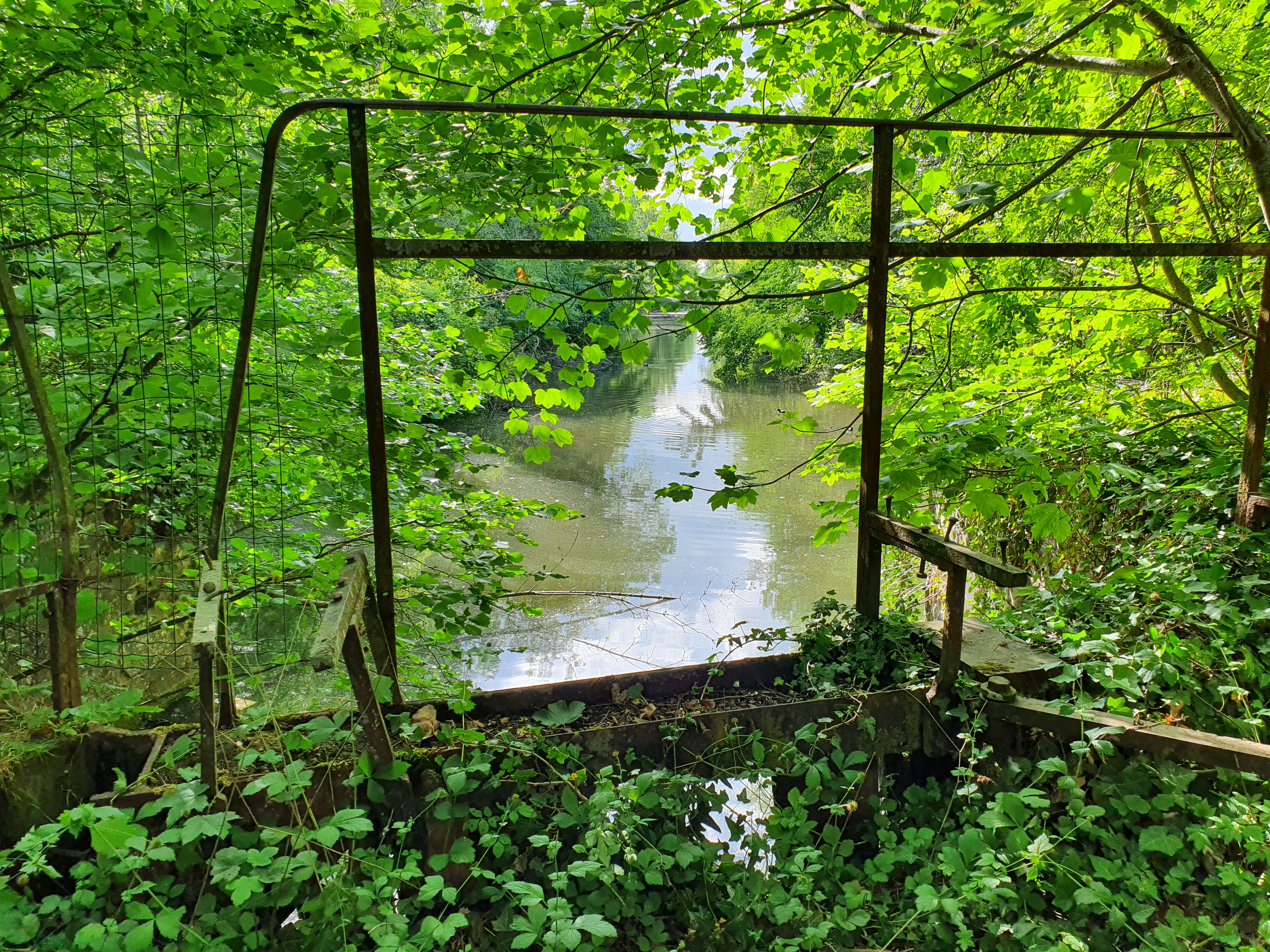 This sluice, built in 1846 was definitely close in 1963. It as allowing river boats to reach the harbour of Saint§-Germainsur Morin on the Morin river.